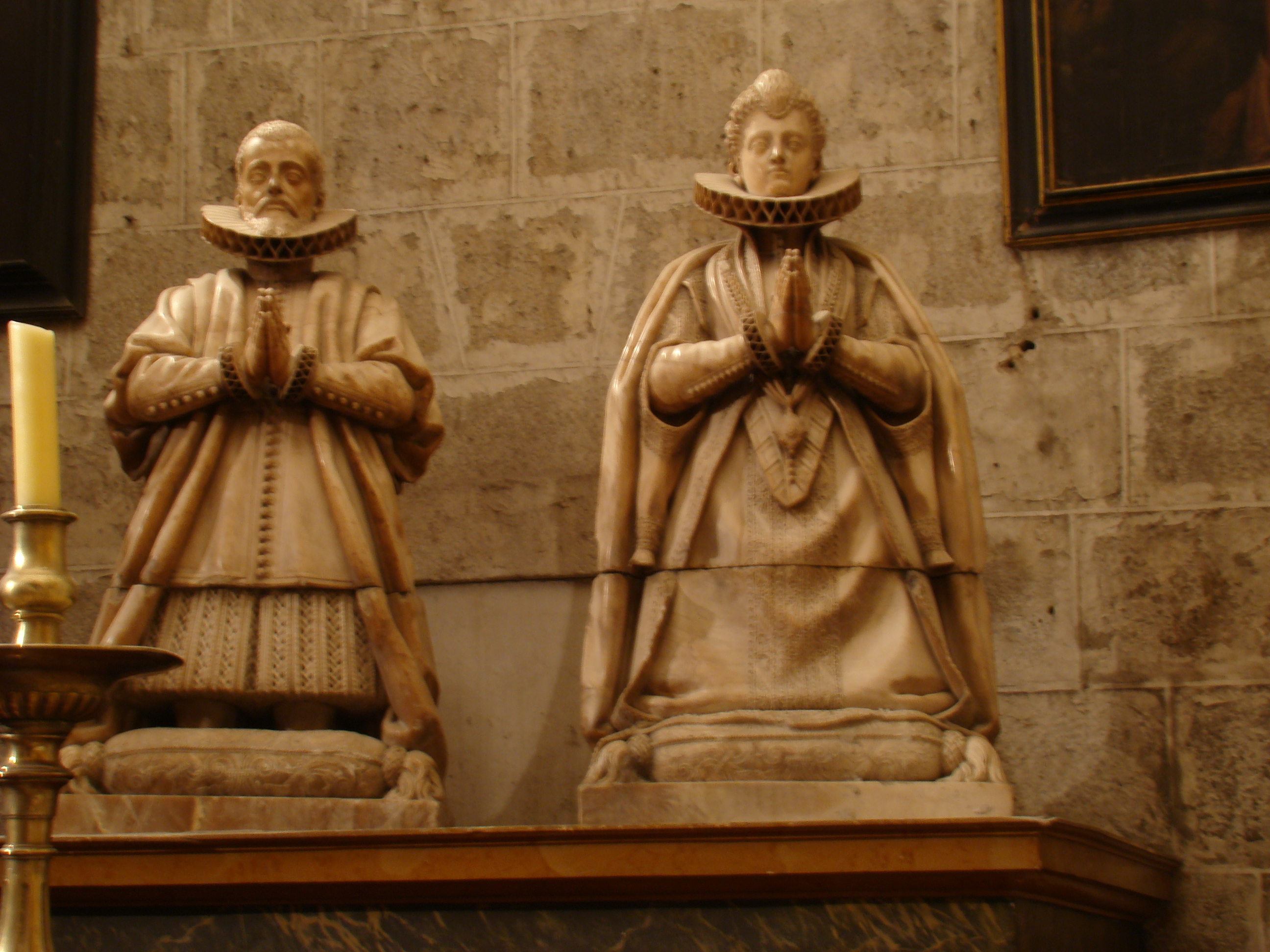 Funerary sculpture of the Venero and Leyva family belonging to the chapel of Santa Catalina, in the extinct convent of San Francisco of Valladolid. Follower of Pompeyo Leoni. Chapel of San José in the cathedral of Valladolid.